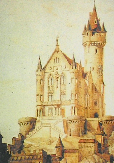 Falkenstein castle near Pfronten (Landkreis Ostallgäu, Bavaria, Germany). Castle project for Ludwig II. at the Falkenstein (1884, Max Schultze)